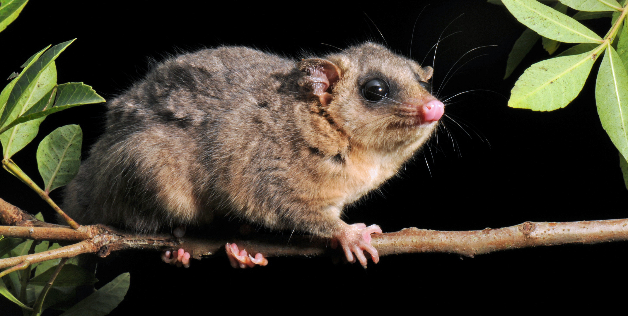 Species of small and arboreal marsupial (Marmosa paraguayana), found in the southeast and parts of southern Brazil.